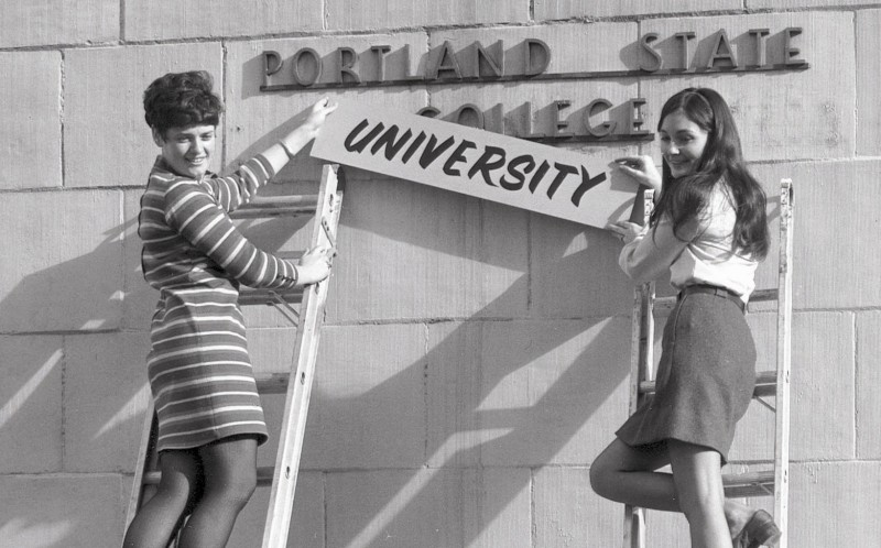 Portland State University students after the institution's granting of "university" status by the Oregon State Board of Higher Education